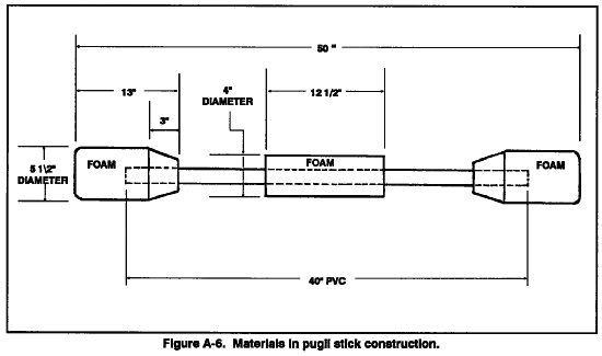 Figure A-6 "Pugil Stick Construction" from US Army Field Manual FM 21-150 (1992).